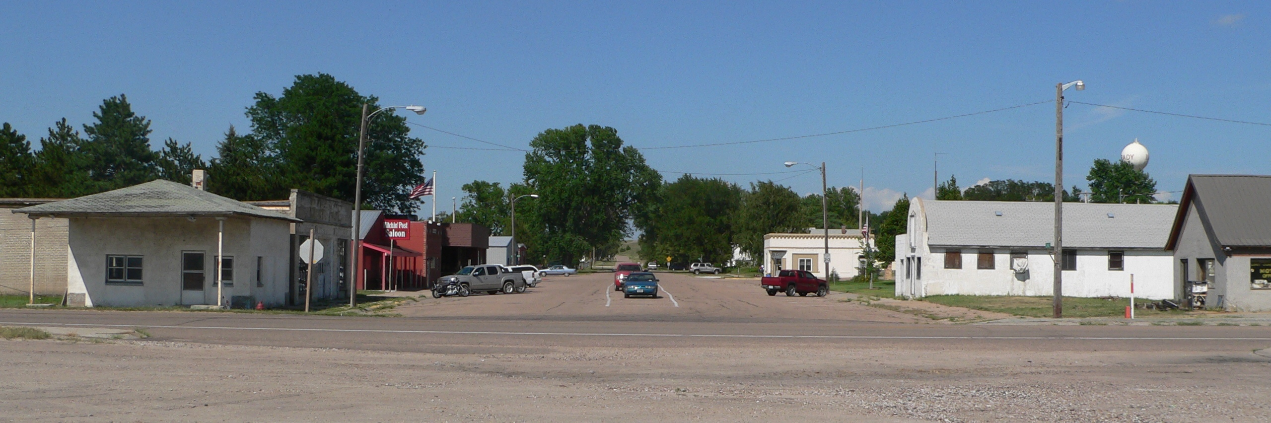 Downtown Brady, Nebraska: looking northeast from Main Street and U.S. Highway 30. (Main runs northeast-southwest; 30 runs northwest-southeast through Brady).